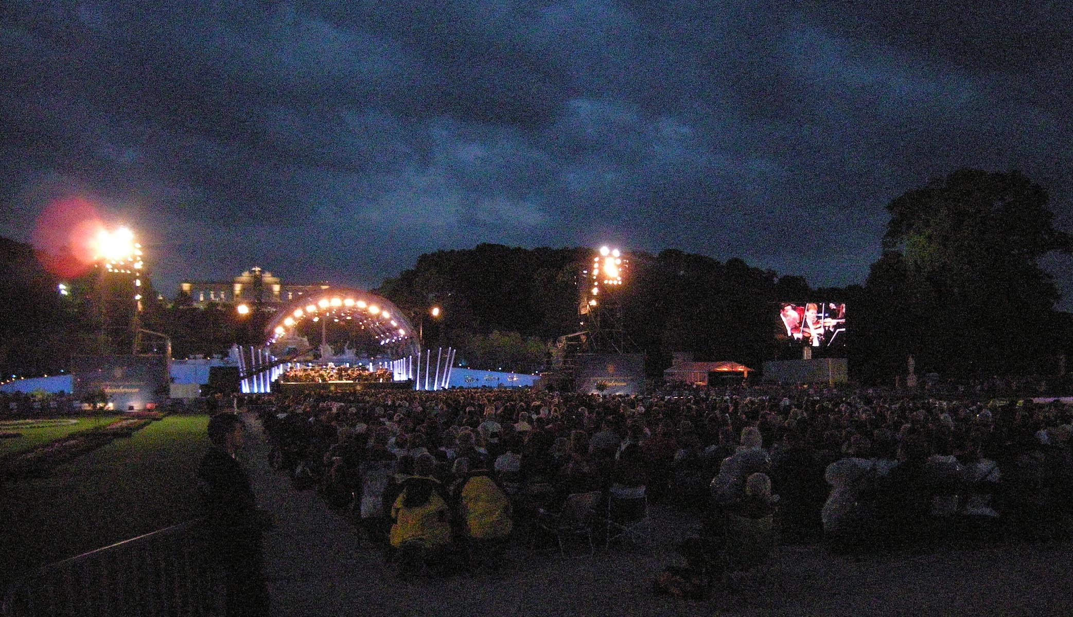 2009 event of Category:Vienna Philharmonic Schönbrunn concert Note: Camera time (EXIF data) is set to UTC, which is local time -2. The concert began at 21:00.